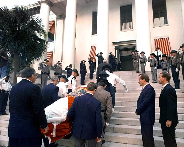 At the right may be Agricultural Commissioner Bob Crawford standing with Lieutenant Governor Frank Brogan. Born in 1933, Pat Thomas served as state senator from Quincy, Florida. A University of Florida grad and Korean War veteran, he served as chairman for the Florida Democratic Party from 1966-1970. He was elected to the Florida House in 1972, and the Florida Senate in 1974. He served as Senate president from 1993 to 1994. He died in 2000 from multiple myeloma.